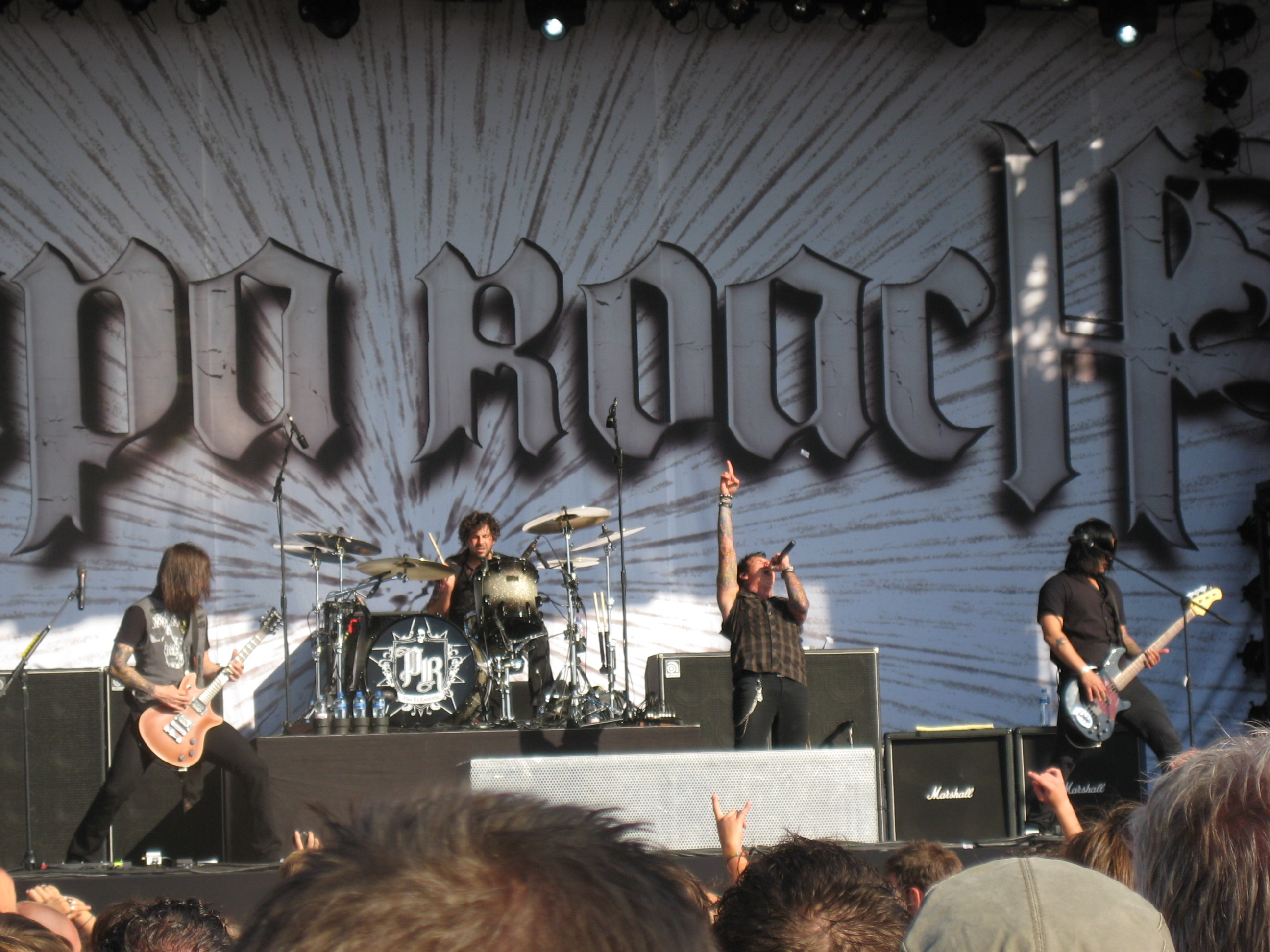 Papa Roach performing at the Zwarte Cross 2010, Lichtenvoorde, Netherlands